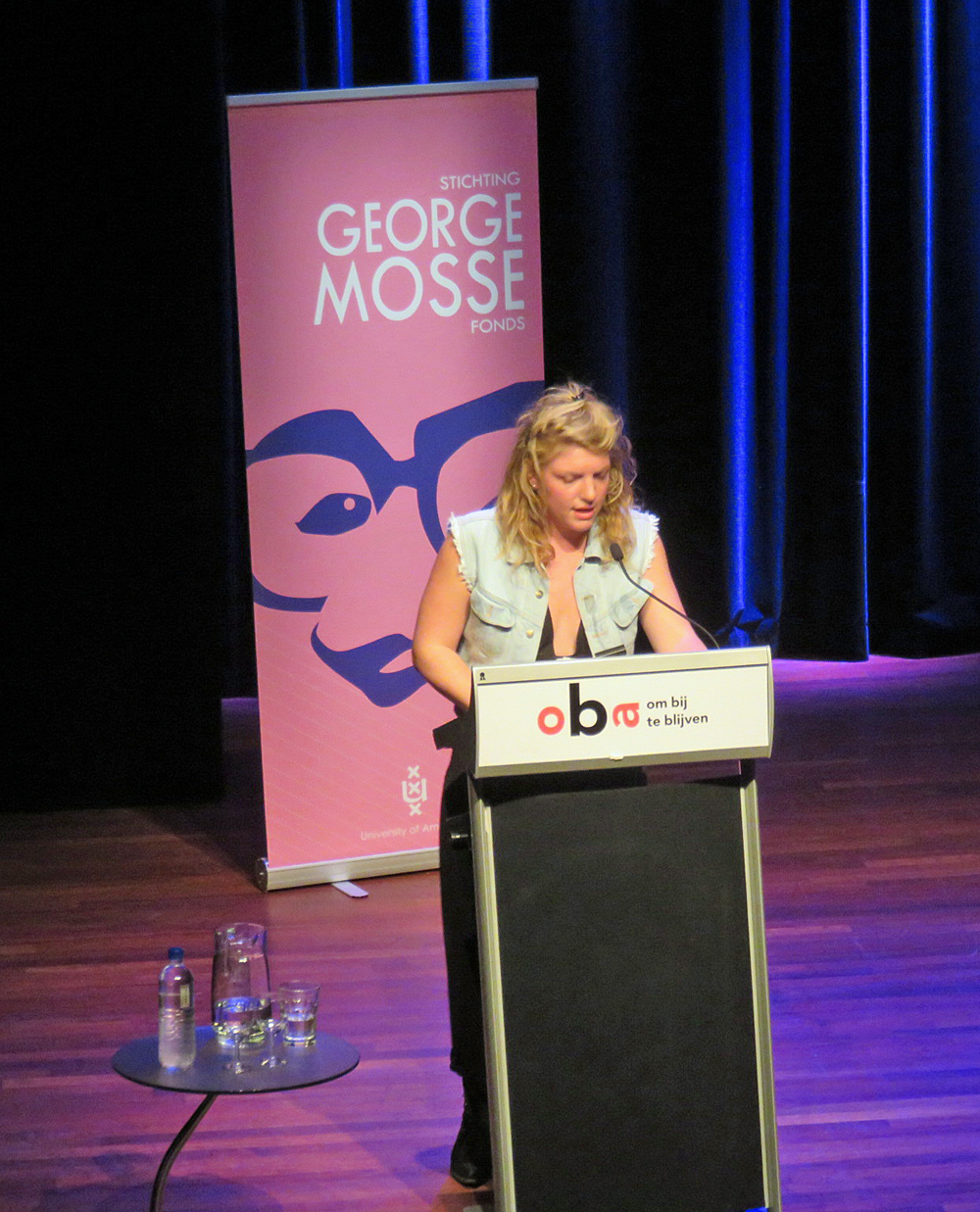 Simone van Saarloos during the Mosse Lecture in September 2016, which is organized by the George Mosse Foundation, which was established in 2001 at the University of Amsterdam.